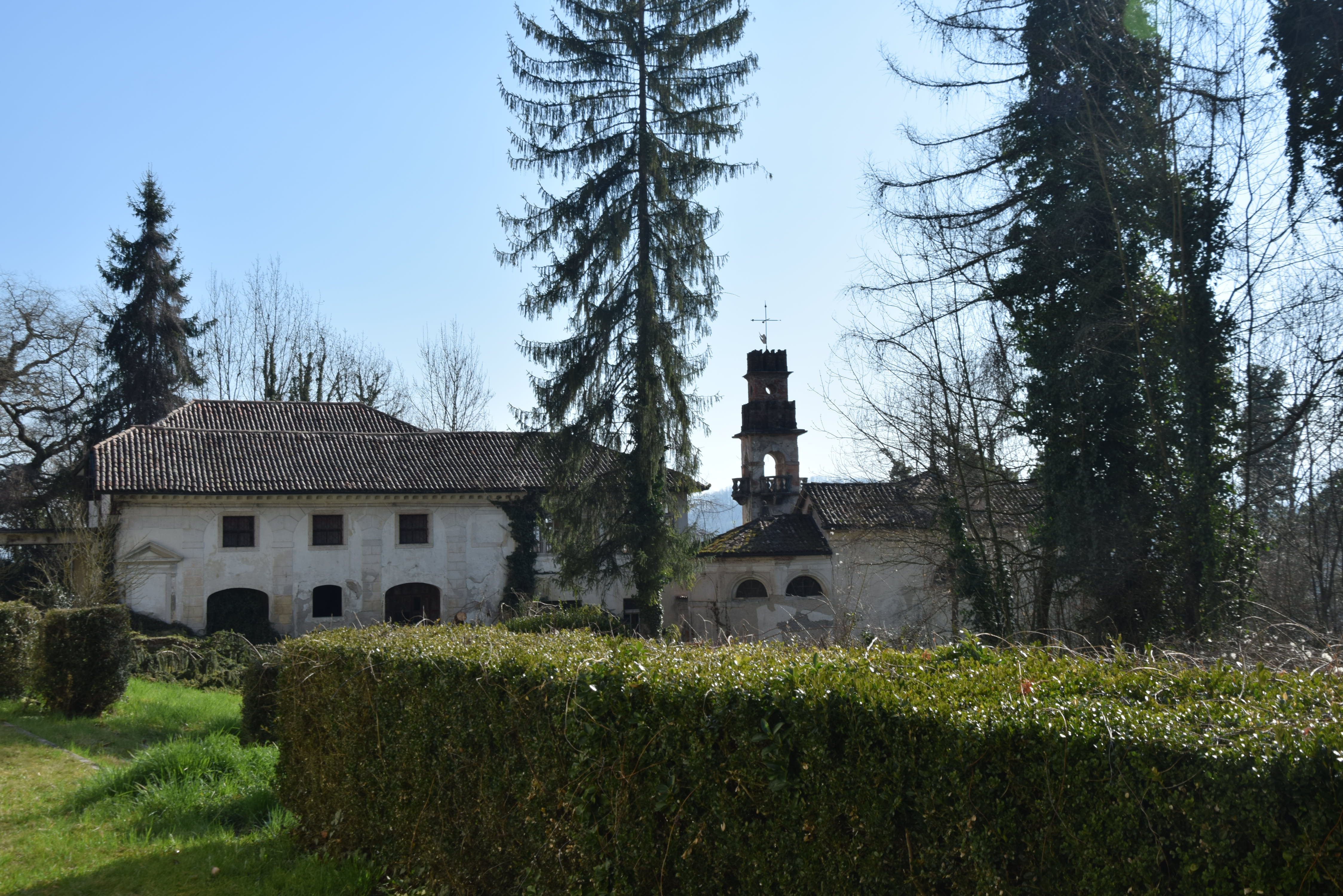 Giardino di villa bellati